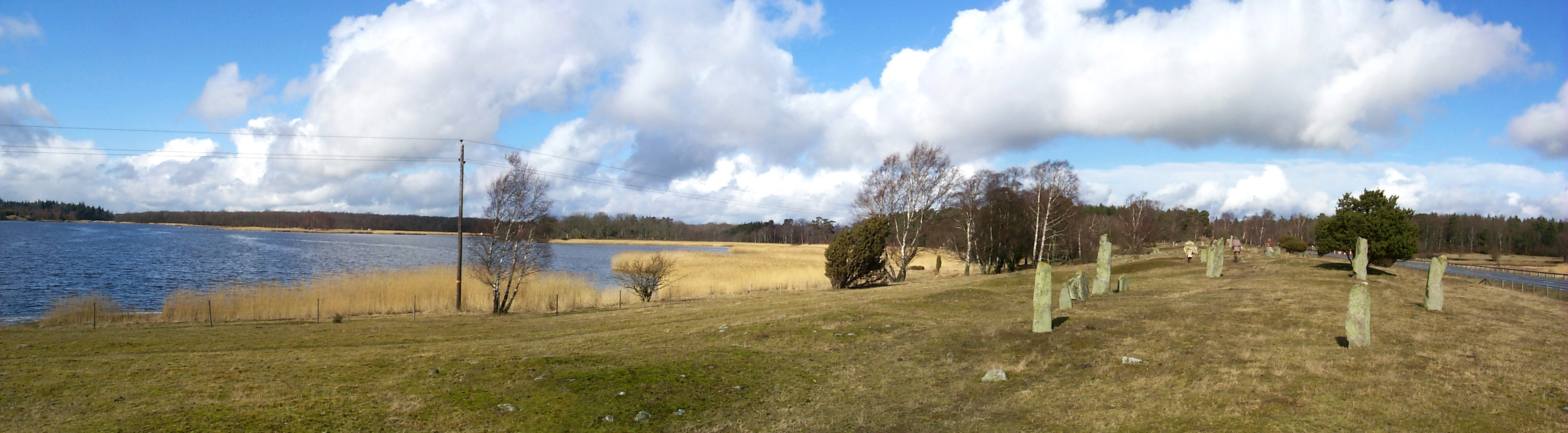 The grave field of Hjortahammar, Blekinge, Sweden from 400 AD to 900 AD.